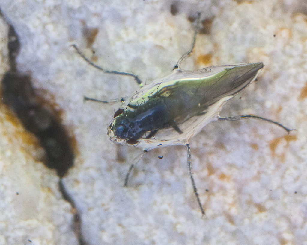 Alkali fly (Ephydra hians) under water inside of its protective air bubble at Mono Lake, CA.